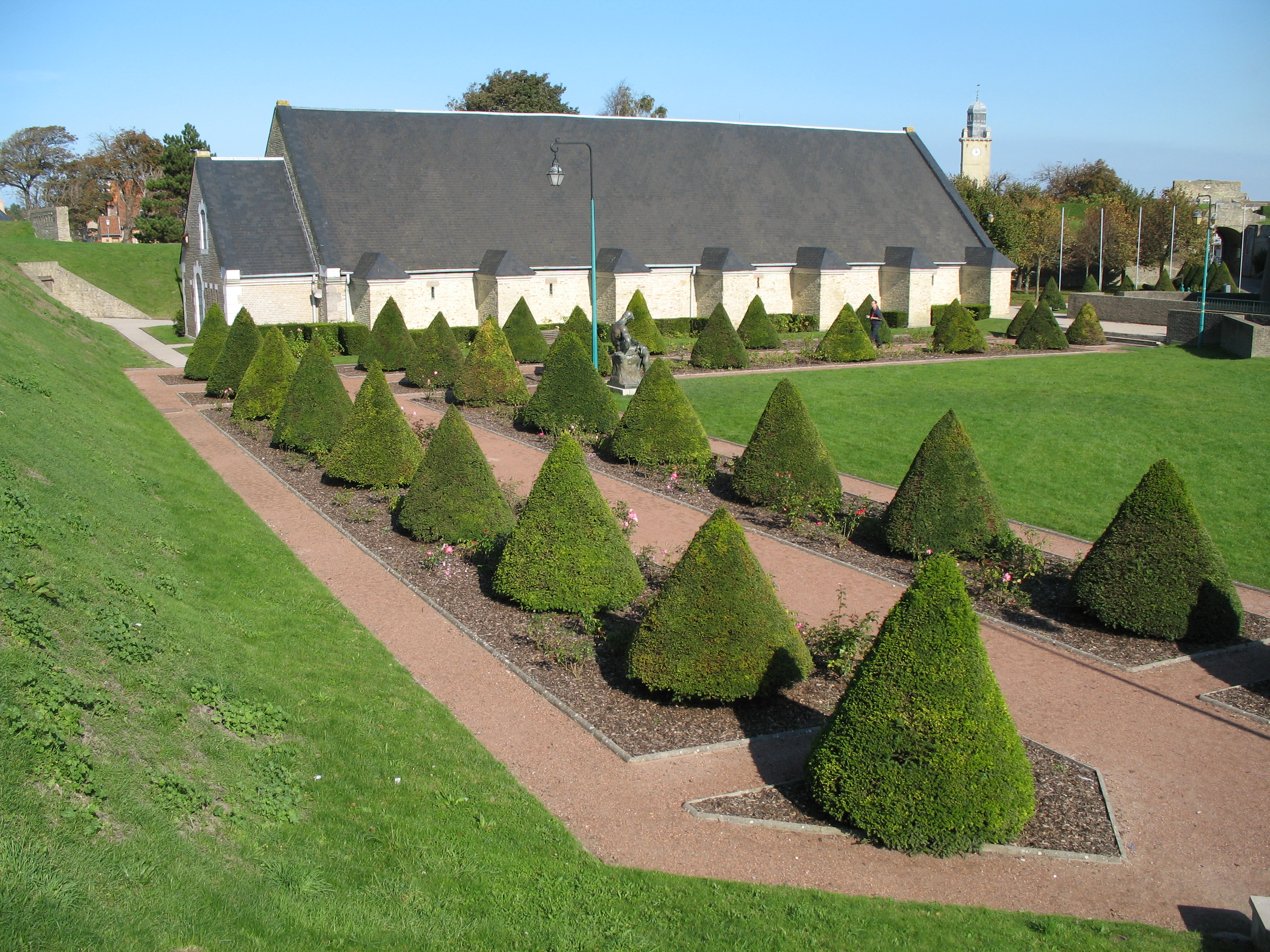 Gravelines (département du Nord, France): Musée de l'Estampe in the former Arsenal